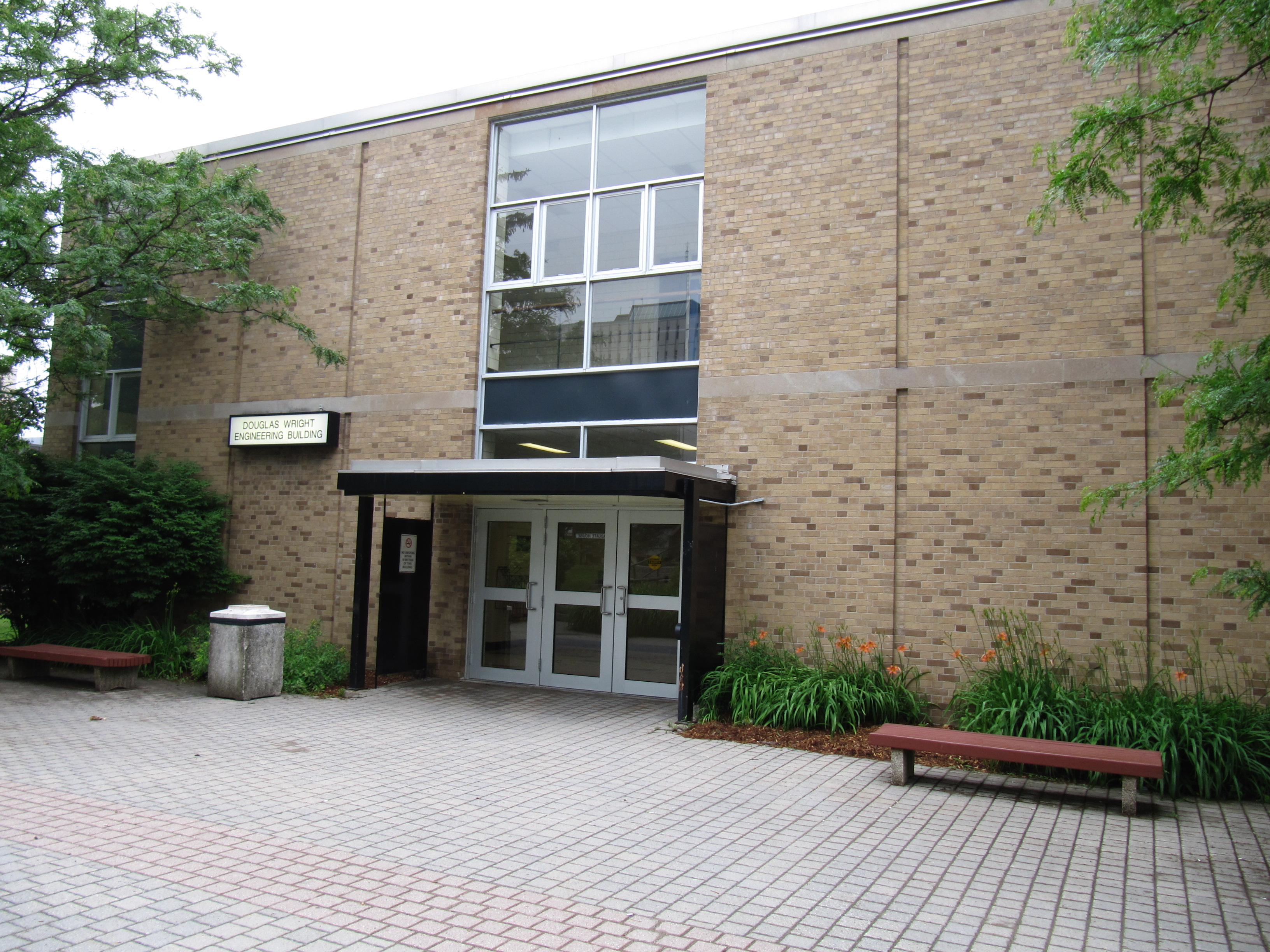 The Douglas Wright Engineering Building at the University of Waterloo